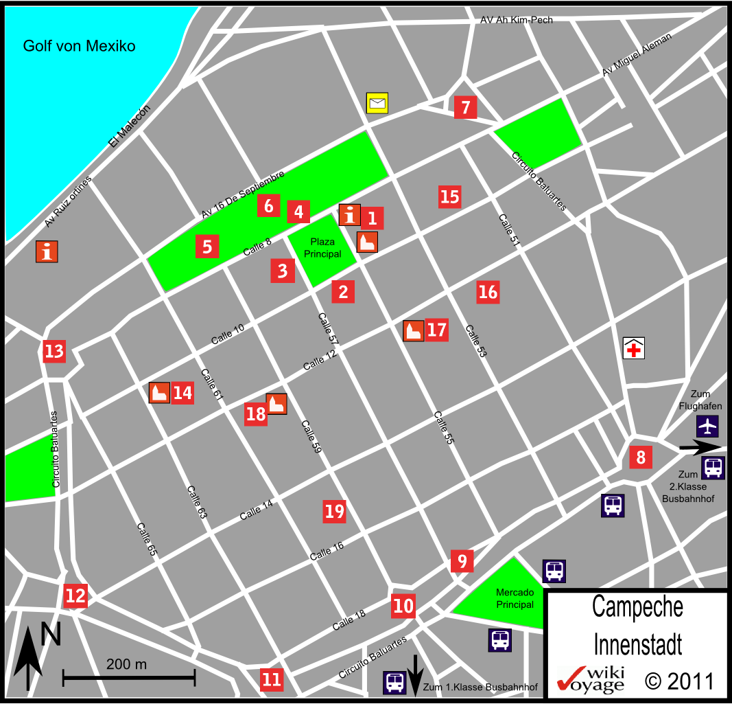 Map of San Francisco de Campeche — state of Campeche, southeastern México. Focus on the UNESCO Historic center of San Francisco de Campeche World Heritage Site area.